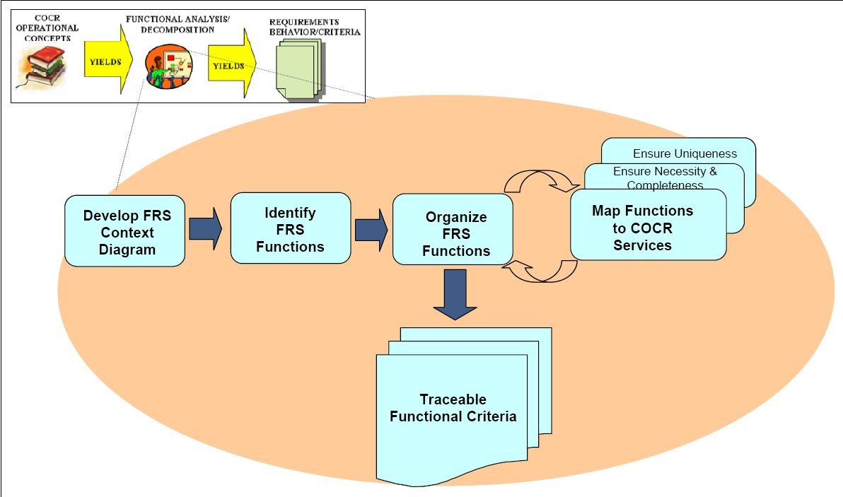 Context_diagram_and_Technical_Criteria_Derivation The operational context diagram is used to show: Actors identified in the operational concepts Interfaces between the actors and the system Required information flow across these interfaces Both actors and interfaces for the FRS were identified by parsing the COCR Consideration given to stakeholder direction during context diagram development